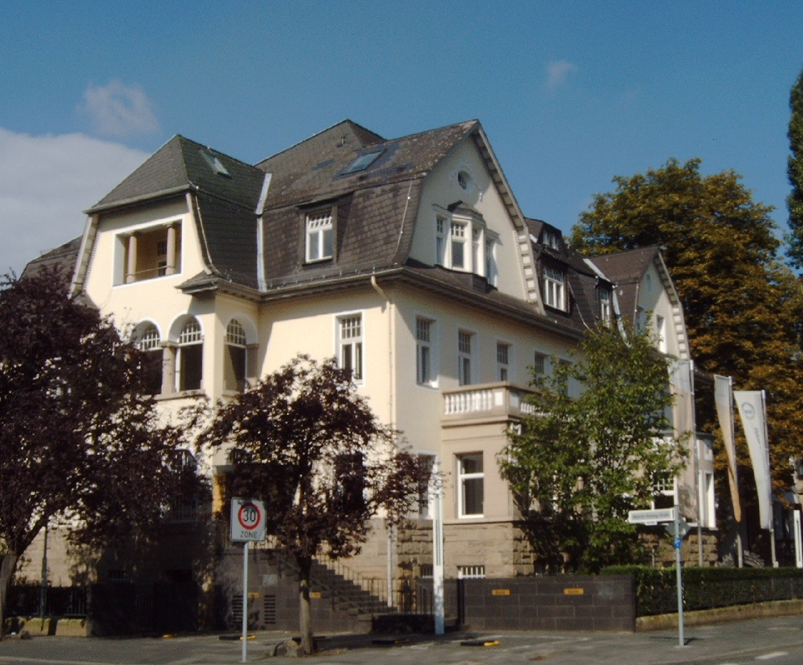 former Headquarters of the SolarWorld AG in Bonn, a company that produces solar cells